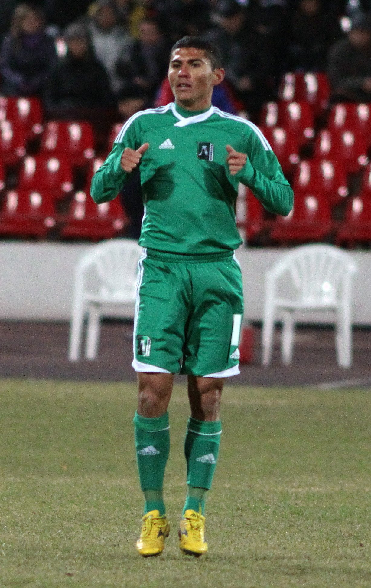 Pedro Julião Azevedo Junior (born December 12, 1985 in Senador Pompeu), commonly known as Juninho Quixadá, is a Brazilian footballer who plays as a forward. He currently plays for Bulgarian club Ludogorets Razgrad.